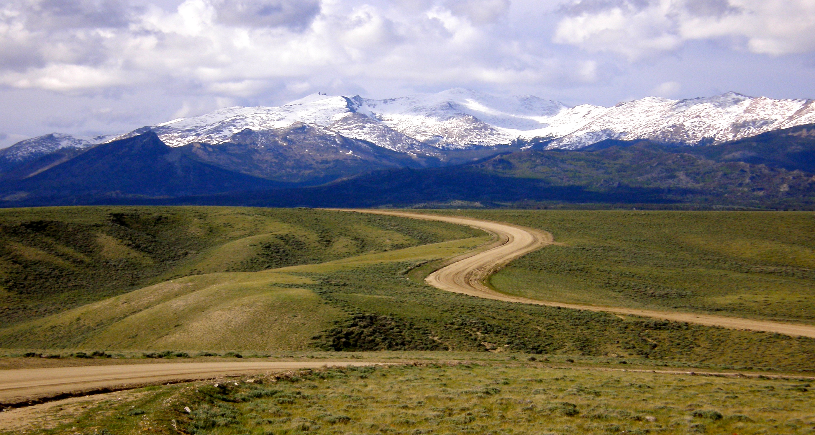 Historic Wyoming Highway used by emmigrants